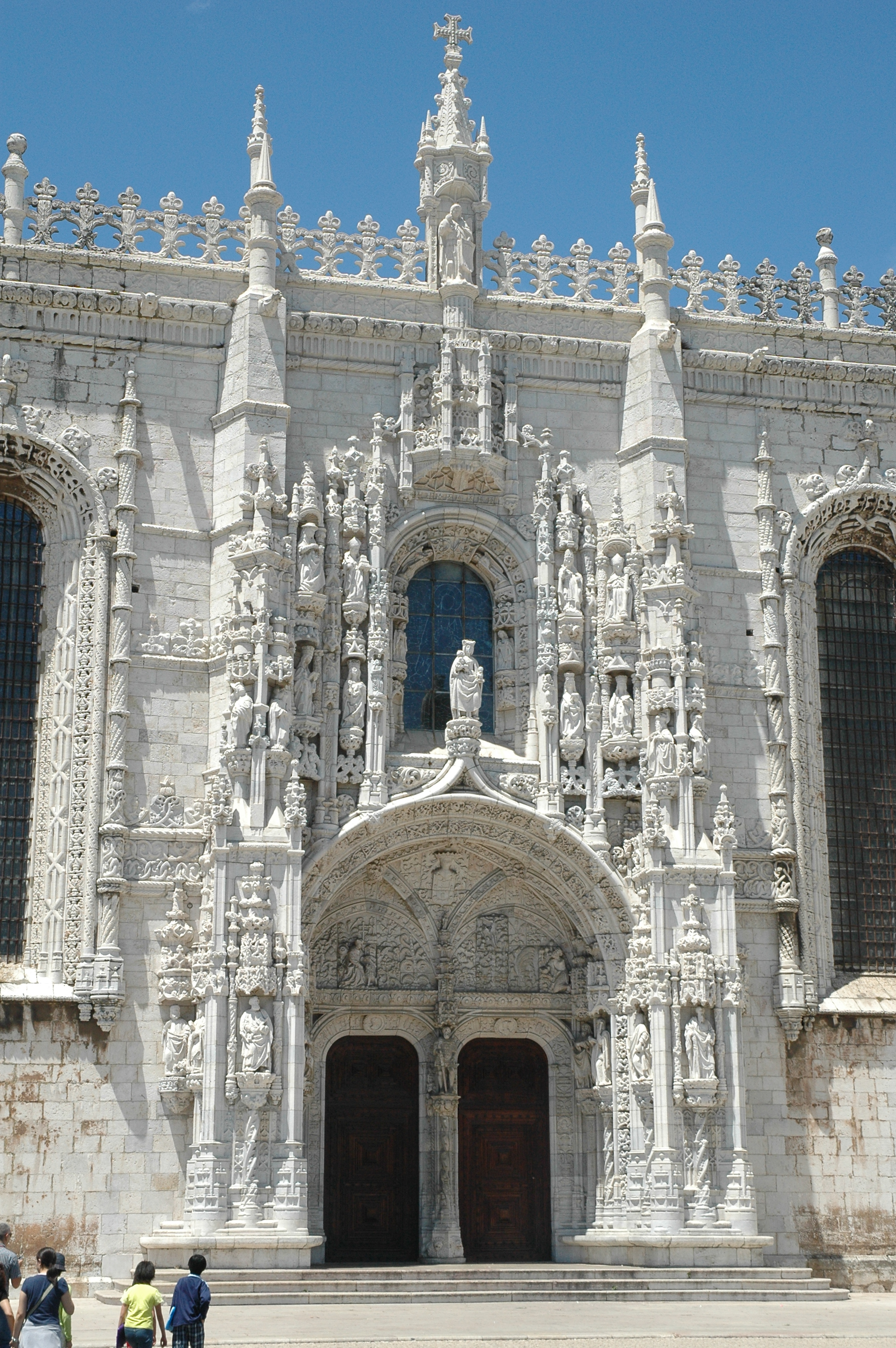 South portal of Jeronimos Monastery, Lisbon, Portugal